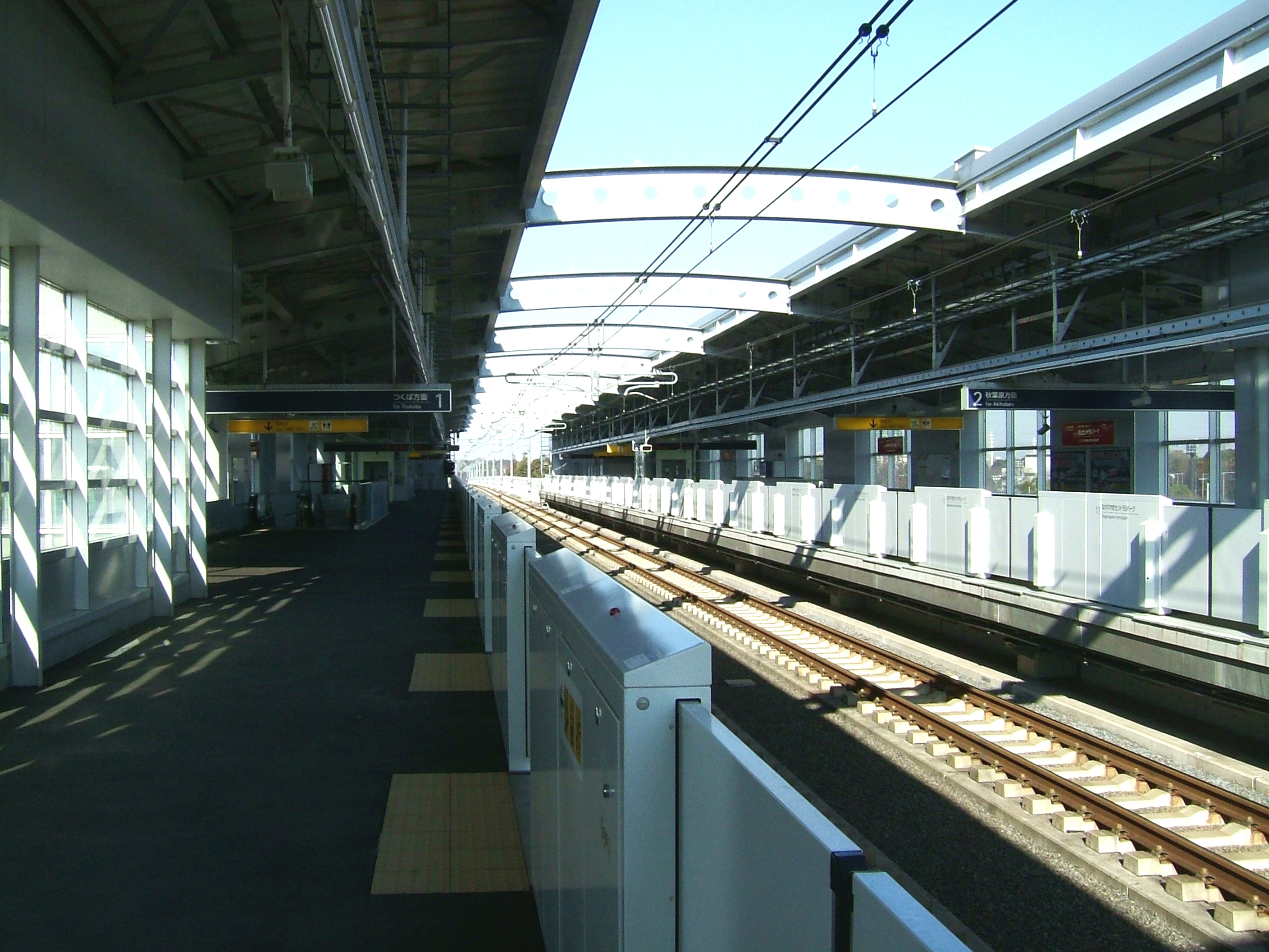 Nagareyama-​centralpark Station platform (Tsukuba Express)